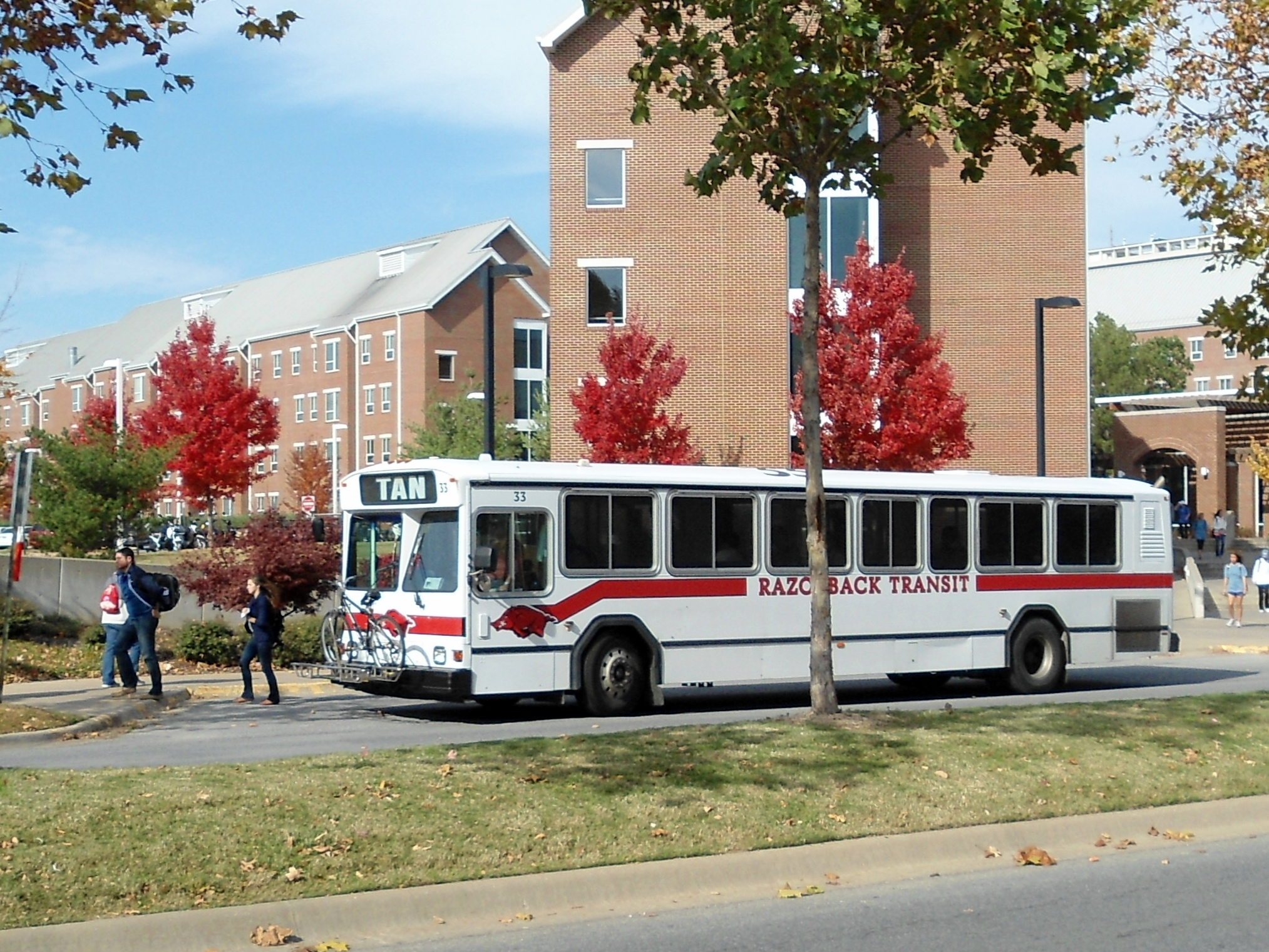 Razorback Transit "Tan Route" bus making a stop at the Northwest Quads/Pat Walker Health Center on the University of Arkansas campus.